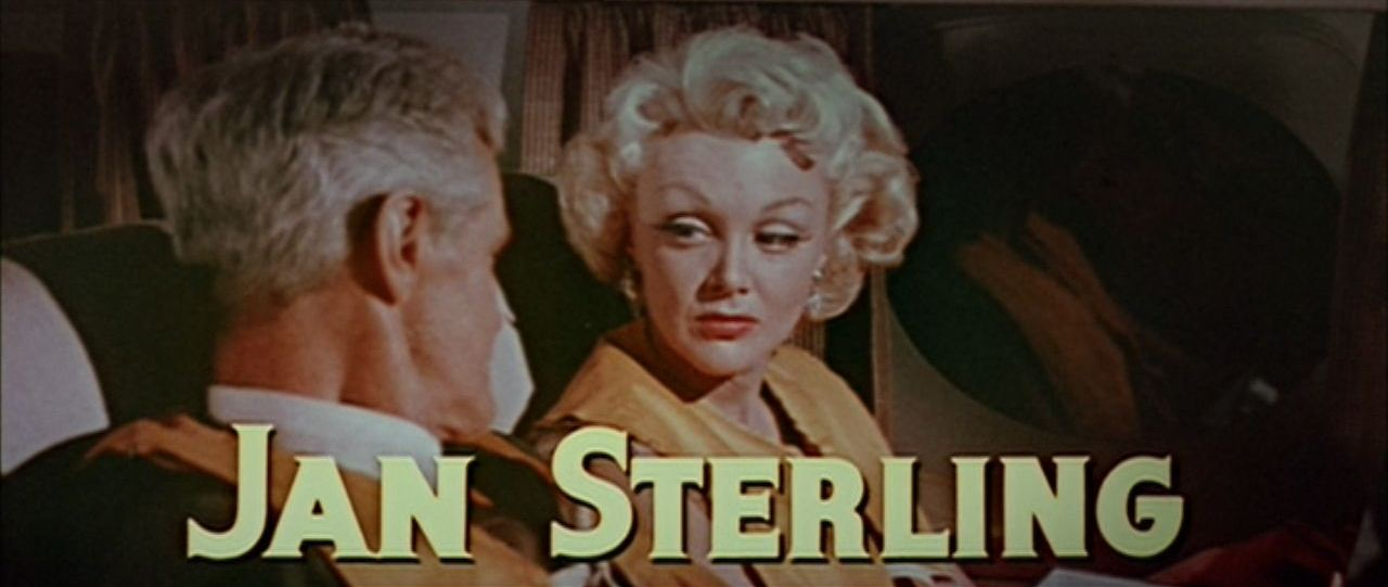 Screenshot showing Jan Sterling from the trailer for the film The High and the Mighty (1954).